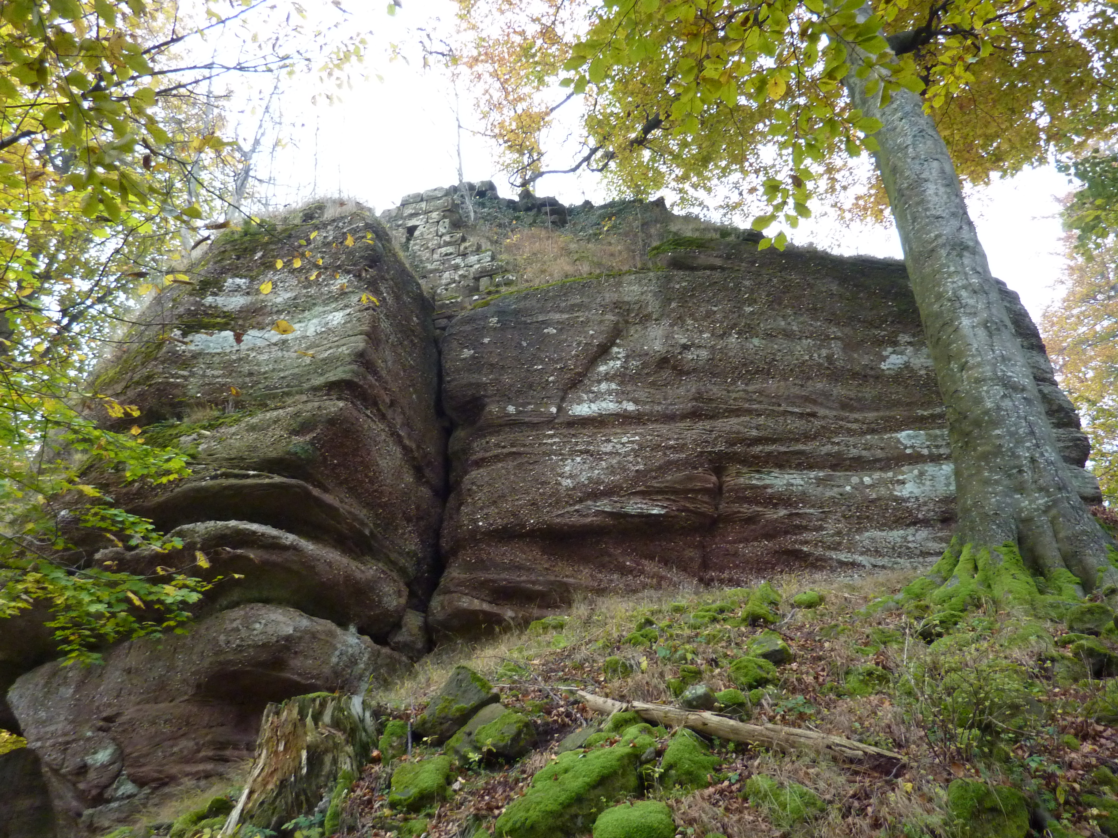 Petit-Ochsenstein castle, Bas-Rhin, France.